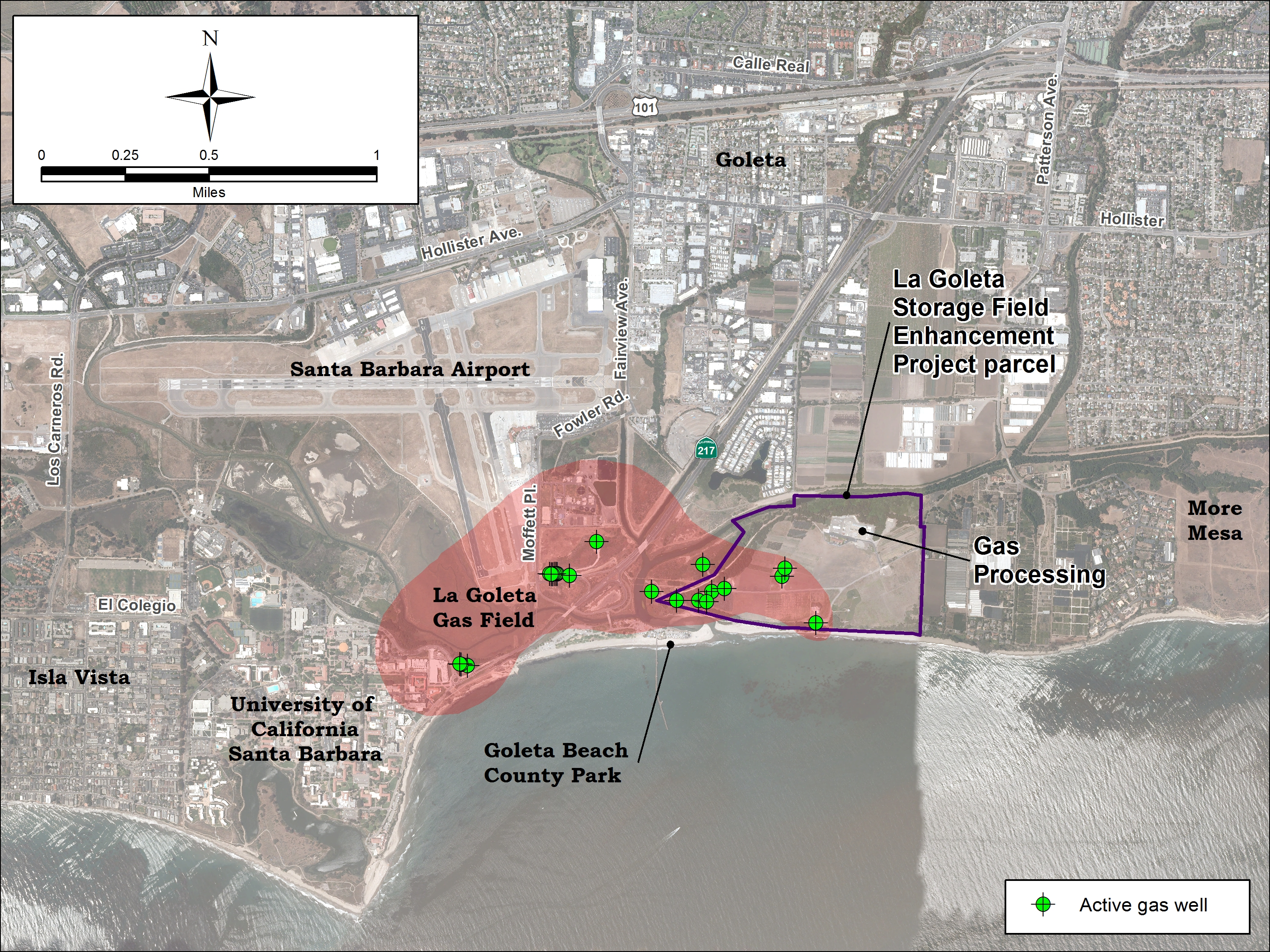 Detail of La Goleta Gas Field. By self in ArcGIS 10.2, using public domain or freely licensed data, or digitized by me. Aerial is 2009 NAIP (product of USDA, public domain).